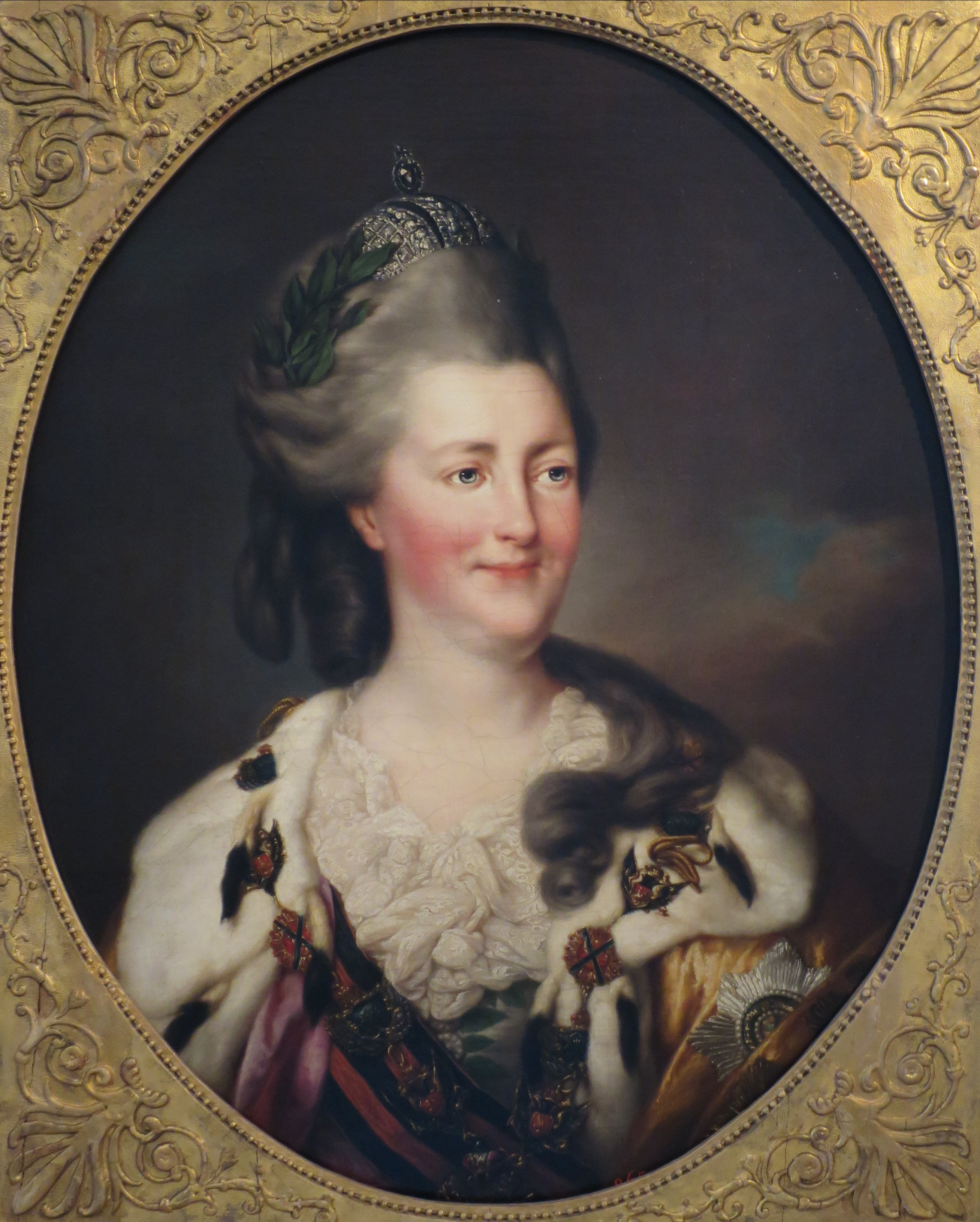 Catherine II by Richard Brompton, 1782, Hermitage